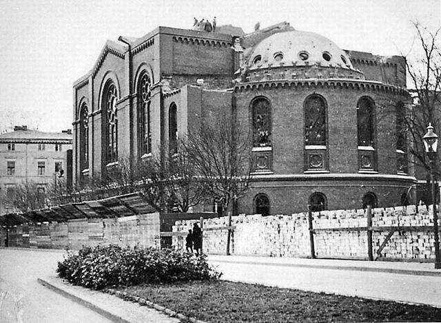 Destruction of the synagogue of Bydgoszczy in 1939